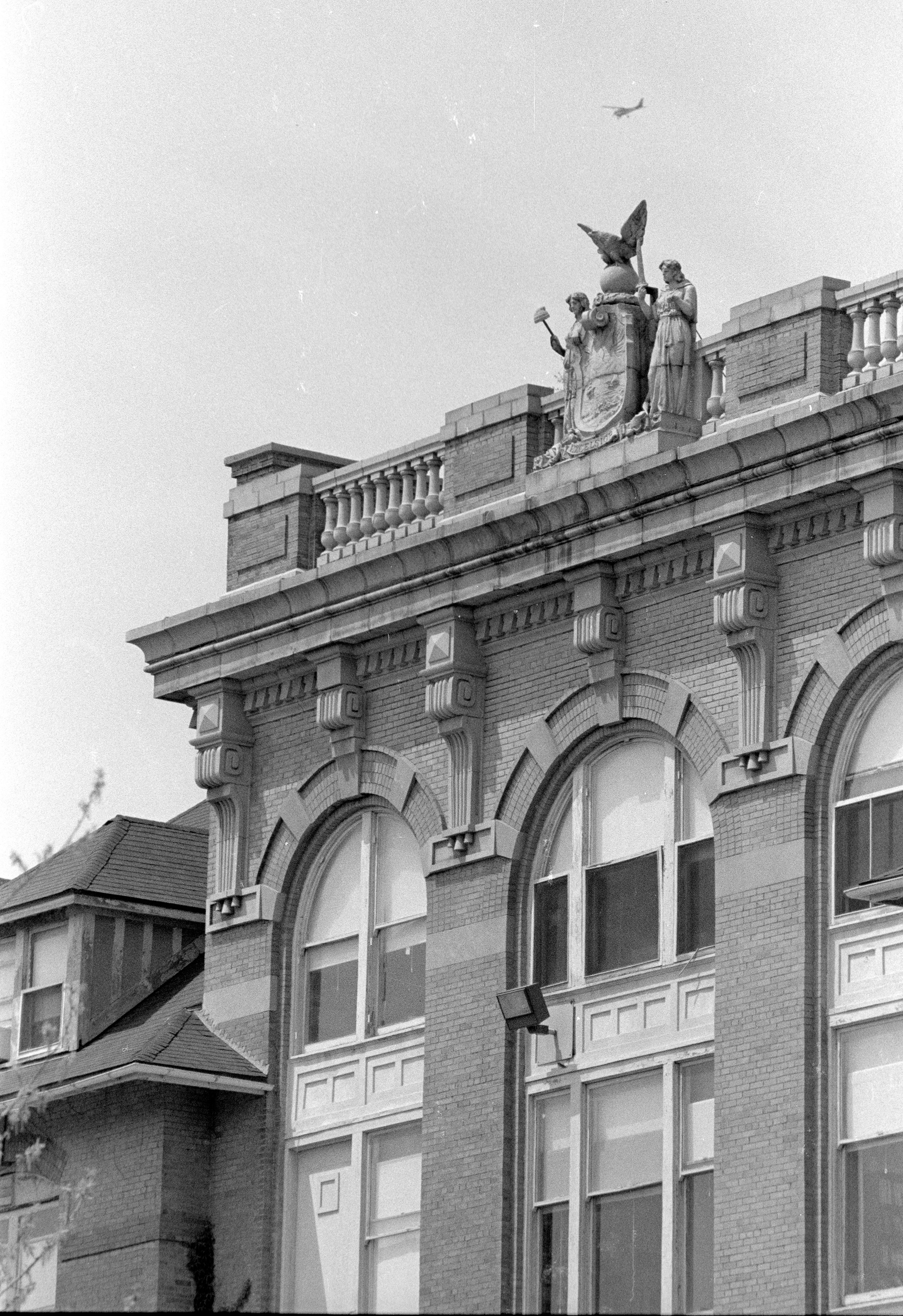 Roberts Hall, Cornell University (demolished)